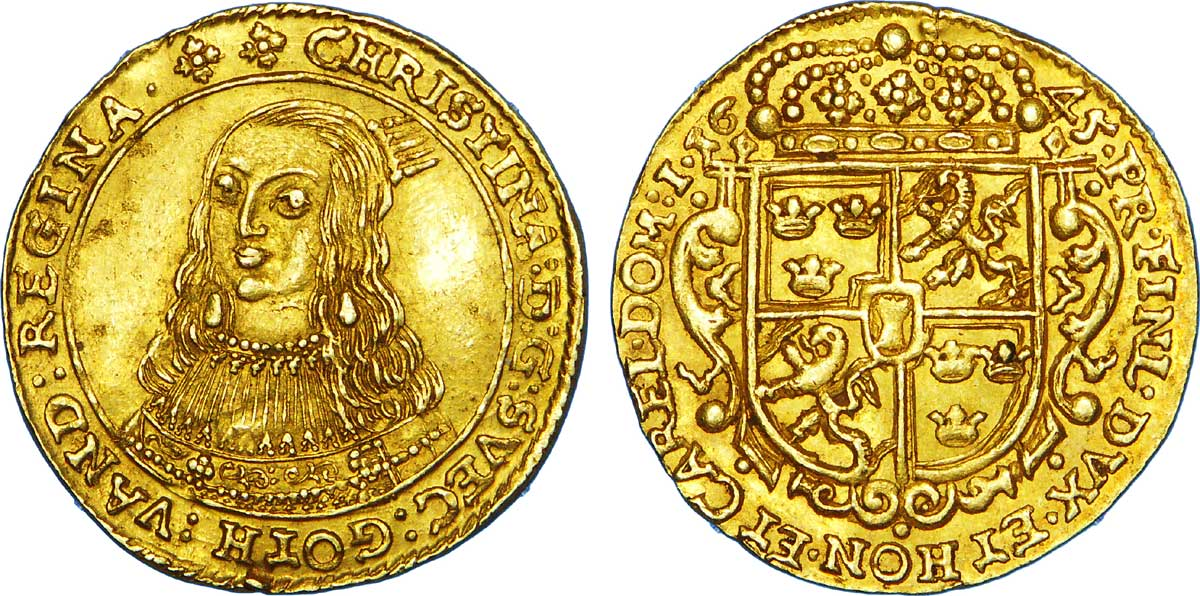 Ducat en or à l'effigie de Christine de Suède, 1645. Titulature avers : (Deux fleurons) CHRISTINA. D: G: SVEG: GOTH: VAND: REGINA. . Description avers : Buste habillé et couronné de Christine de Suède, à gauche, de trois quarts face .